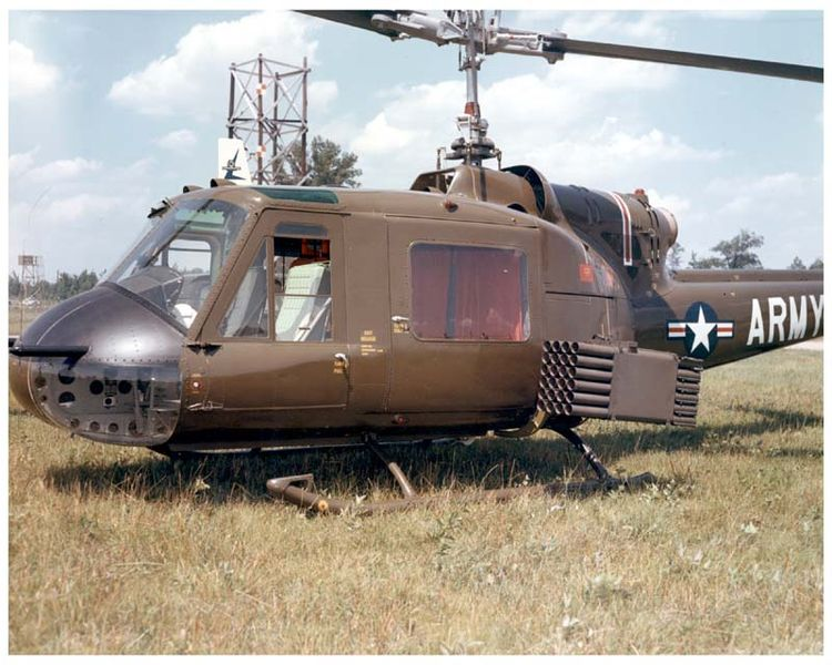 Bell UH-1 Huey equipped with 70mm rockets